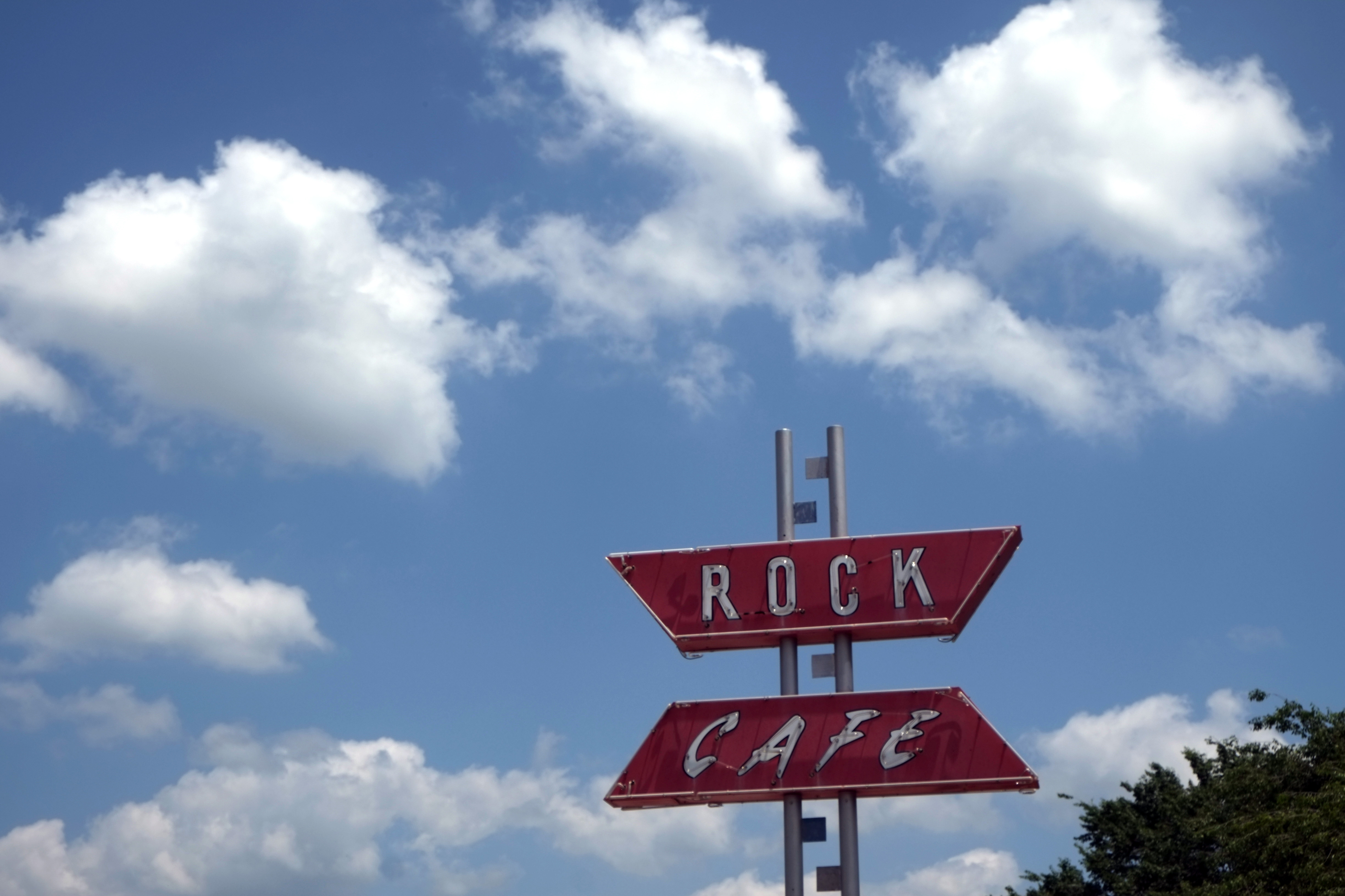 Rock café in Stroud, Oklahoma